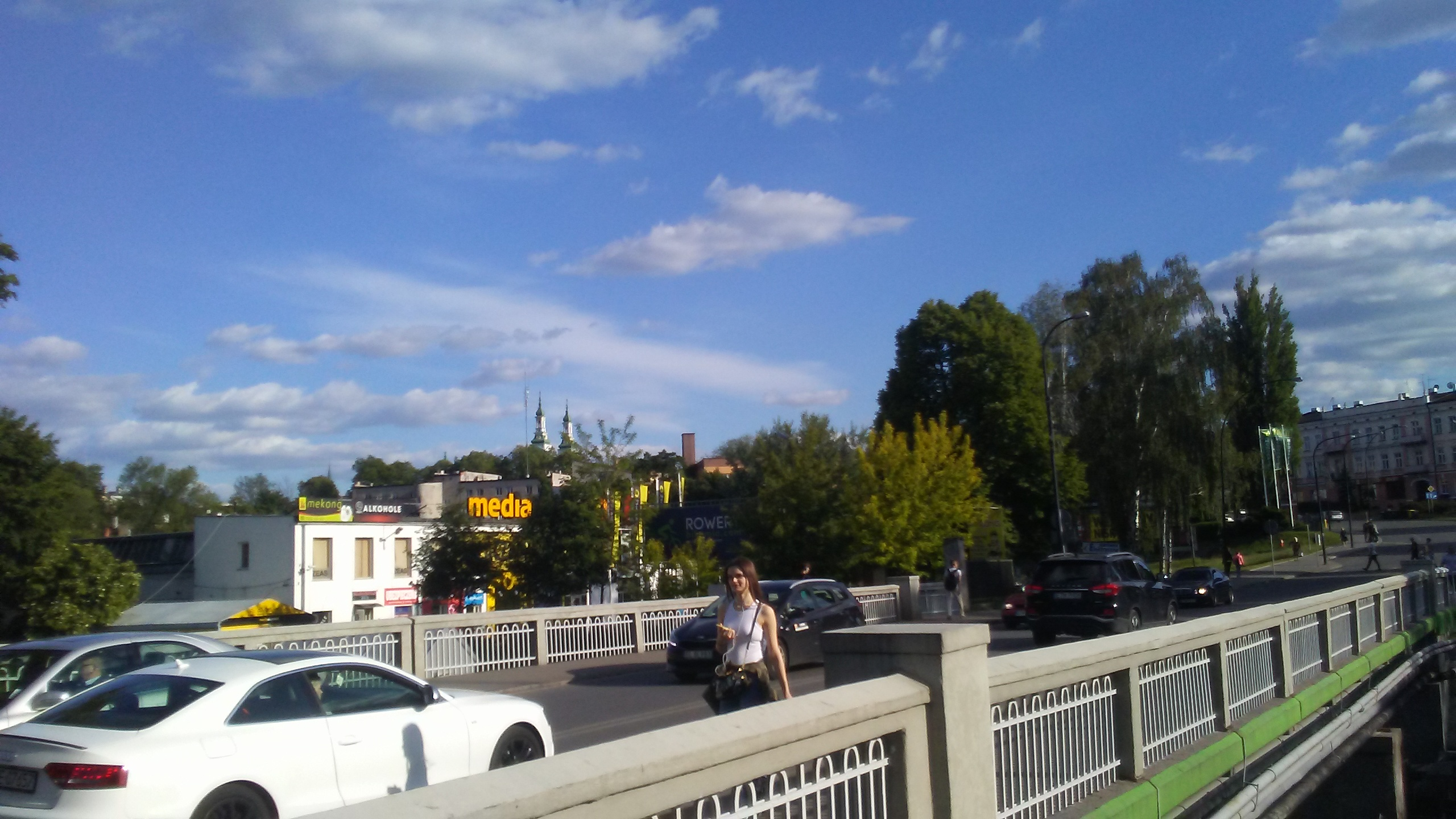 The bridge over Wolbórka river – Warszawska / Saint Anthony Street